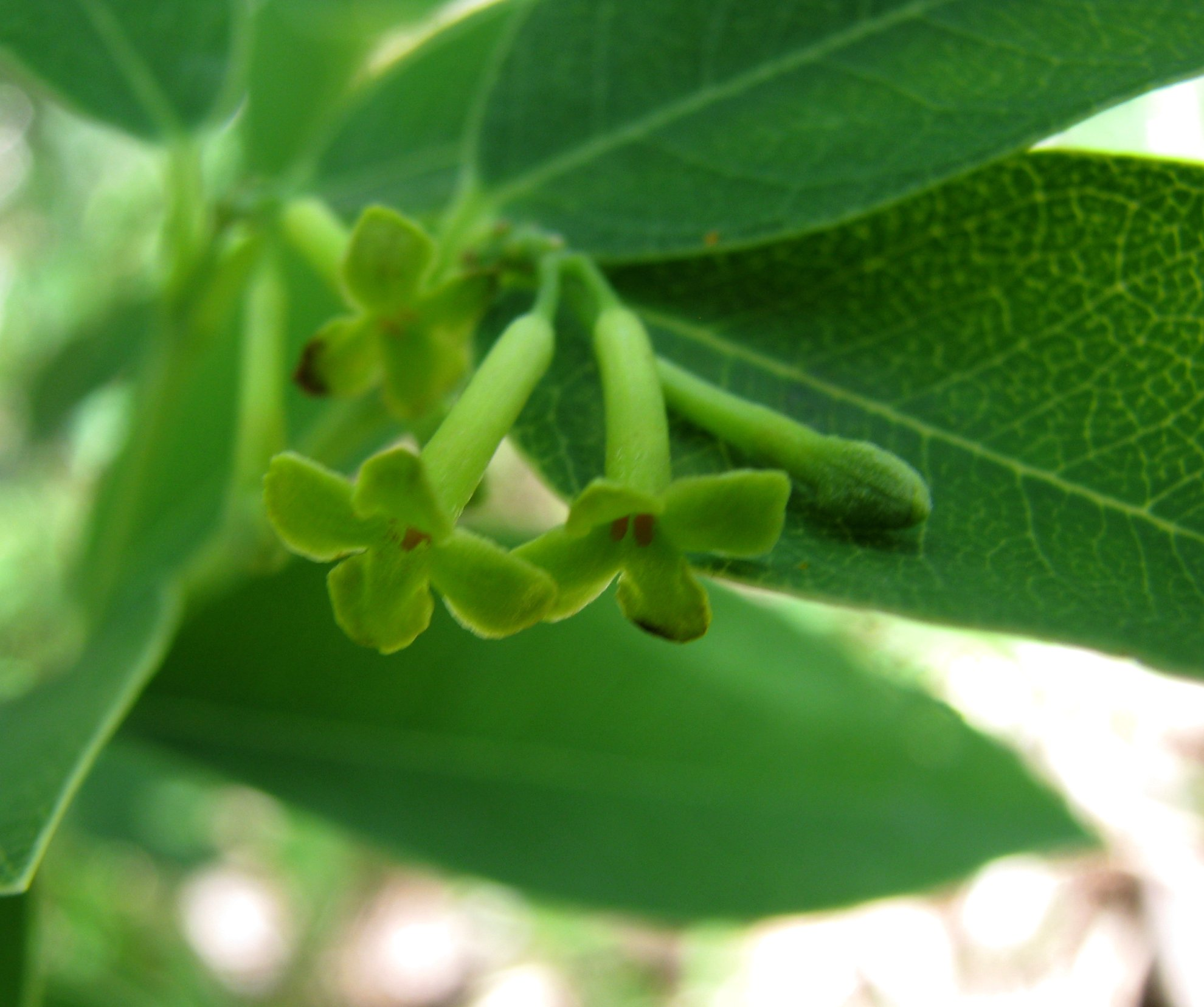 ʻĀkia or Oahu false ohelo Thymelaeaceae Endemic to the Hawaiian Islands Keaiwa Trail, Oʻahu Low sprawling shrub form. NPH00005